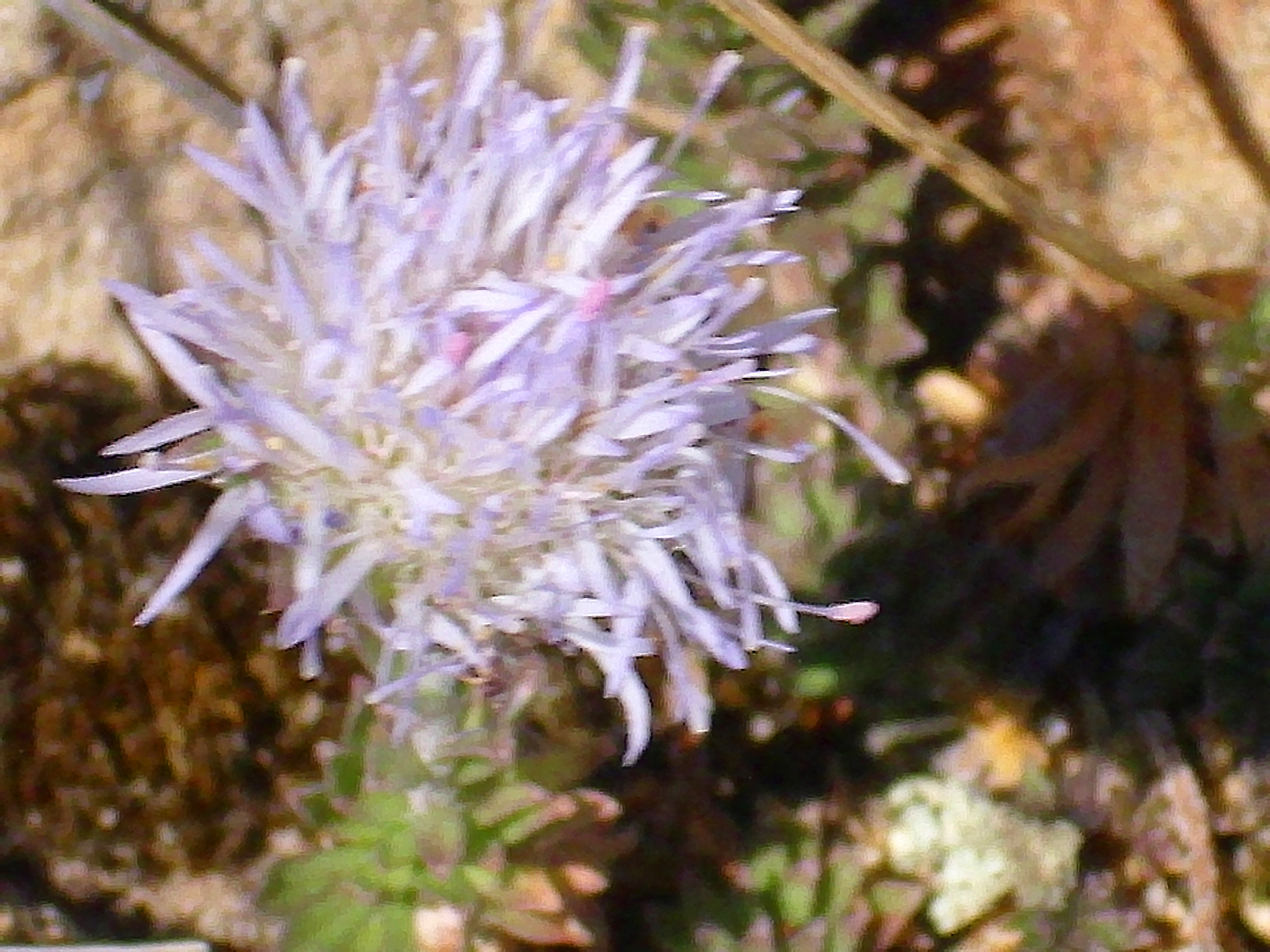 Jasione crispa closeup, Sierra Madrona, Spain